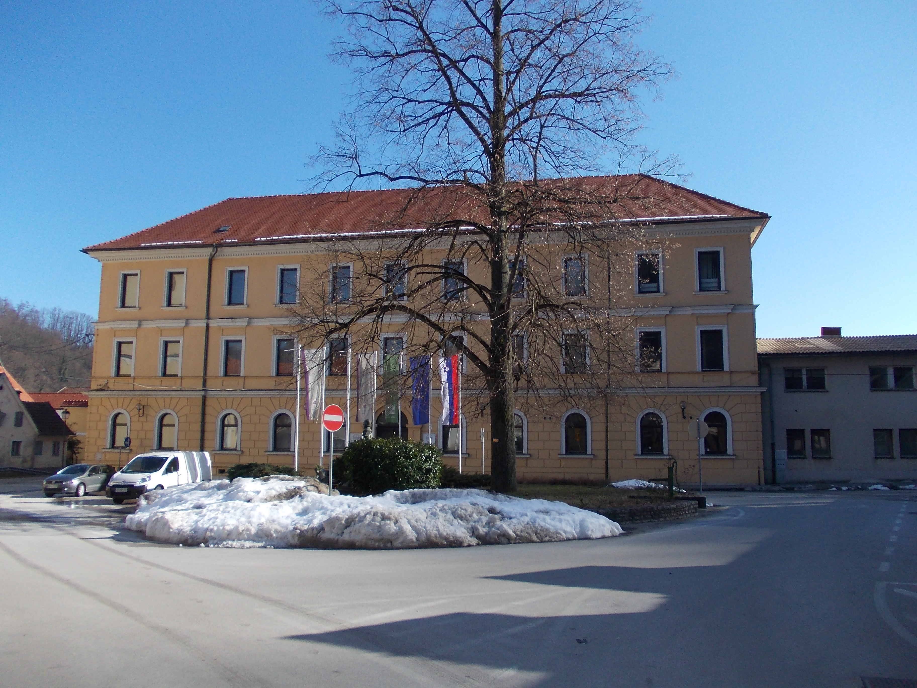 Faculty of Logistics Krško